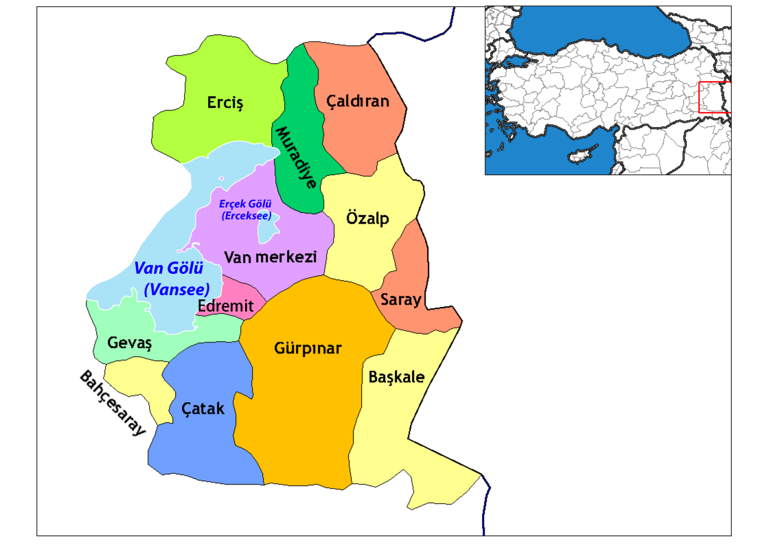 Map of the districts of Van province in Turkey. Created by Rarelibra 17:53, 4 December 2006 (UTC) for public domain use, using MapInfo Professional v8.5 and various mapping resources. Edited by One Homo Sapiens: Corrected text where İ,Ş,ı,ğ,or ş occurs in name. Source: [statoids-com]. Increased font size and enhanced color differences among adjacent districts. Edited by Chumwa: Added Van Gölü